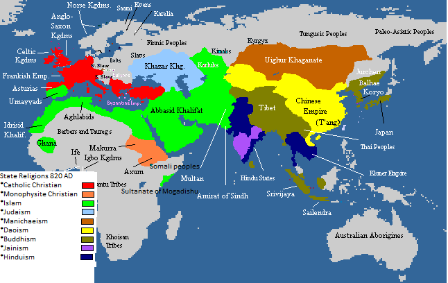 of state religion 820 CE